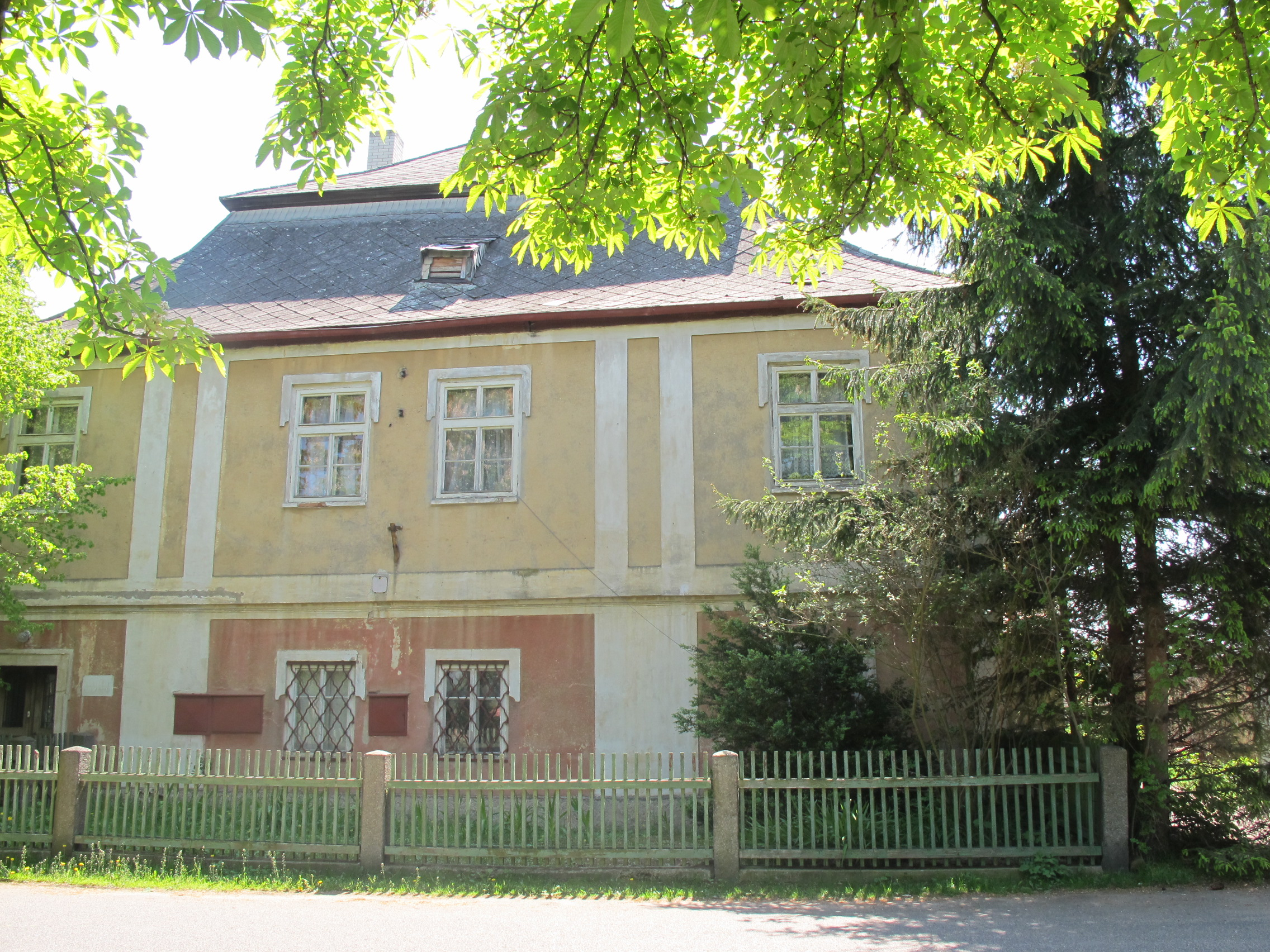 Parsonage in Nové Sedlo (Louny District)